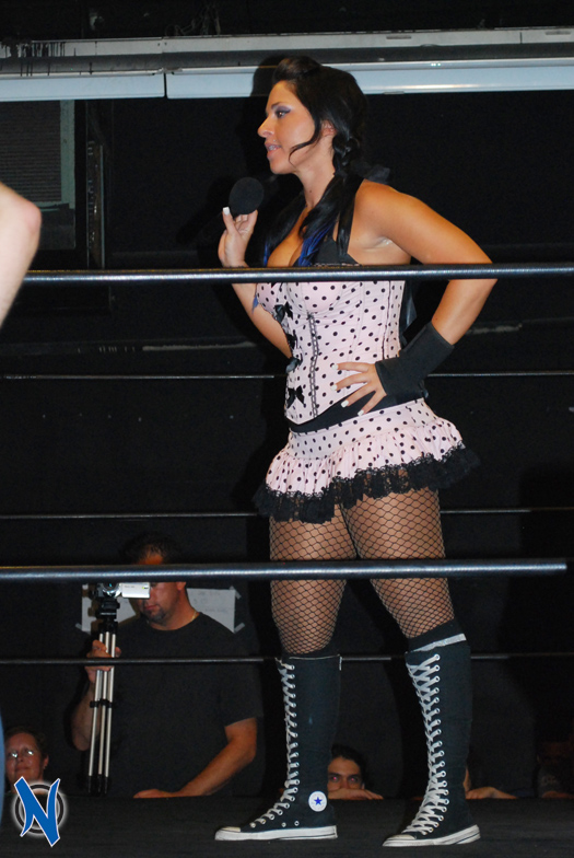 Professional wreslter Becky Bayless at a Women Superstars Uncensored show in 2010. Photo originally taken by Flickr user Nixed.